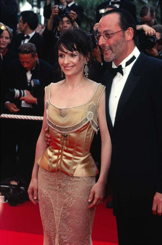 Juliette Binoche and Jean Reno at Cannes, 2002 My own picture. creator by Rita Molnár